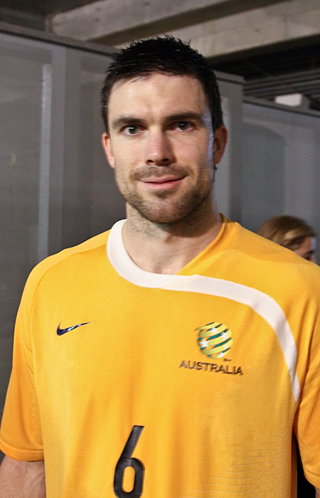 Michael Beauchamp after a training session at ANZ Stadium the day before a World Cup Qualifying game against Uzbekistan.